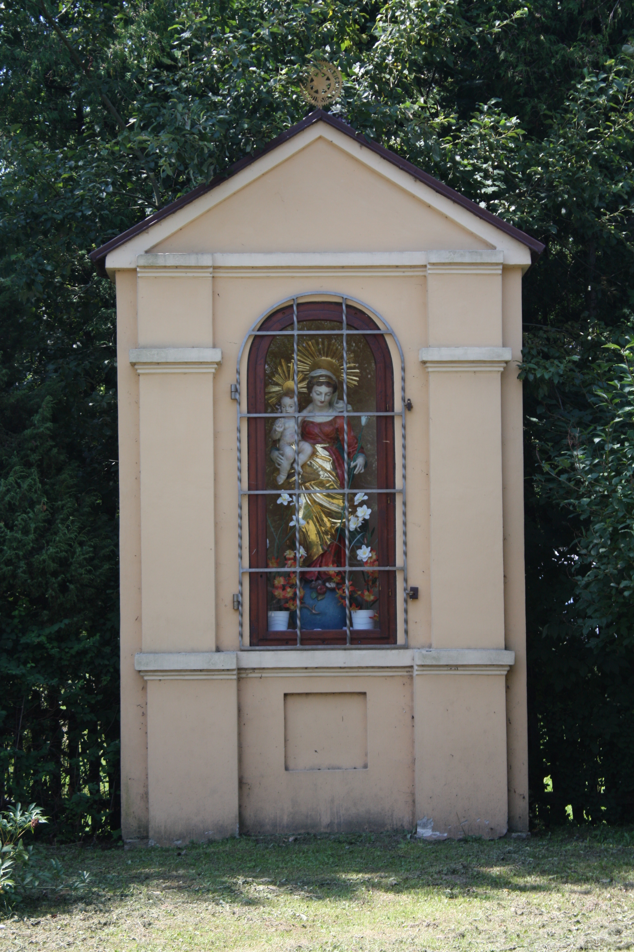 This photo of Warmian-Masurian Voivodeship was taken during Wikiexpedition 2012 set up by Wikimedia Polska Association. You can see all photographs in category Wikiekspedycja 2012. The making of this document was supported by Wikimedia Polska.